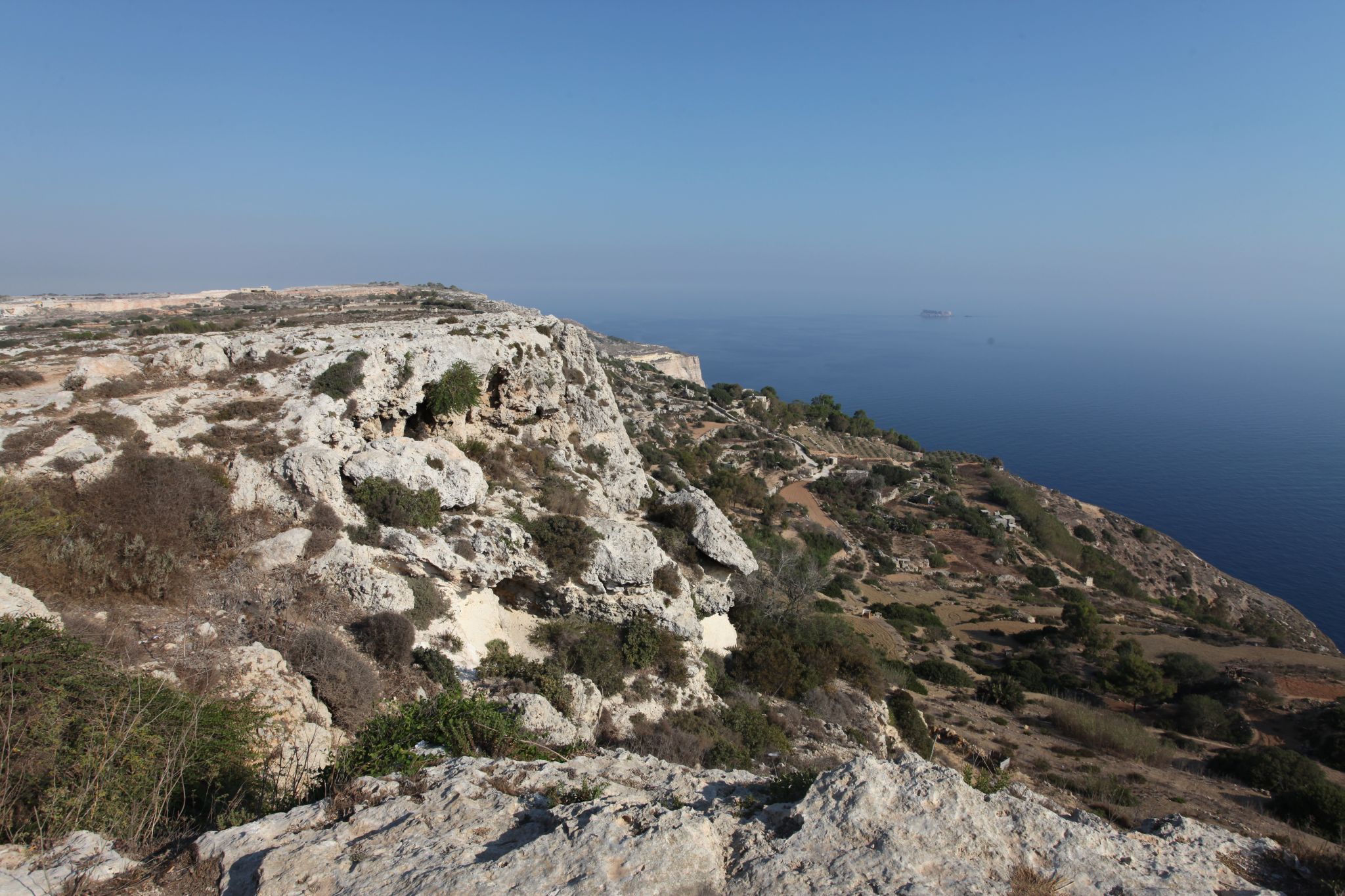 Dingli Cliffs with Filfla